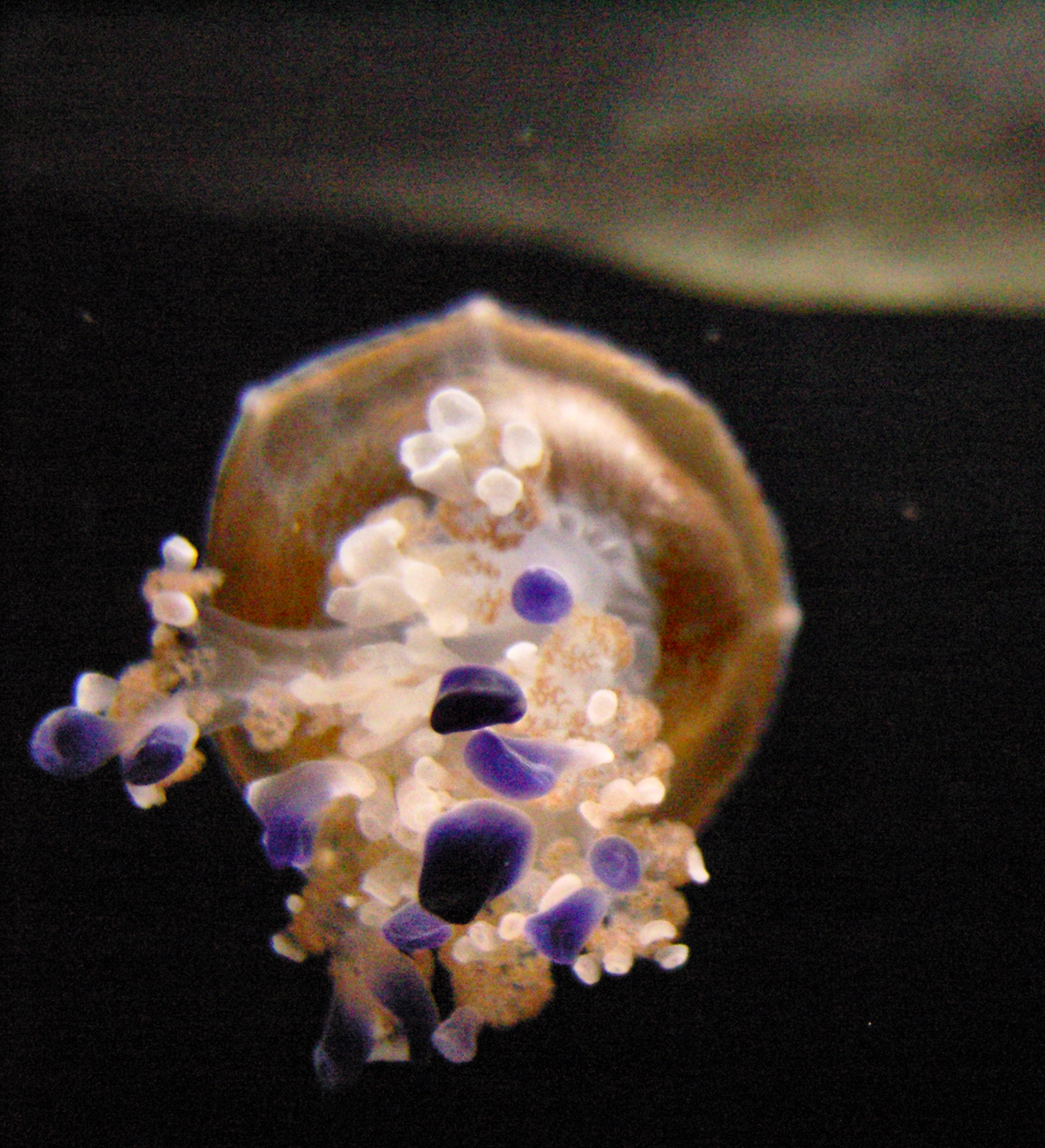 Mediterranean Jellyfish (Cotylorhiza tuberculata), Monterey Bay Aquarium, California.